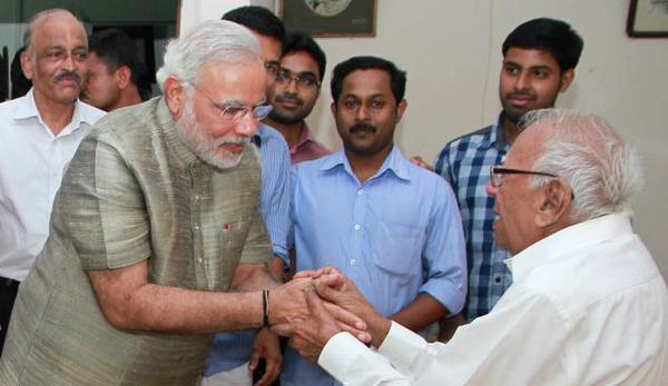 Prime Minister condoles the passing away of Justice Krishna Iyer